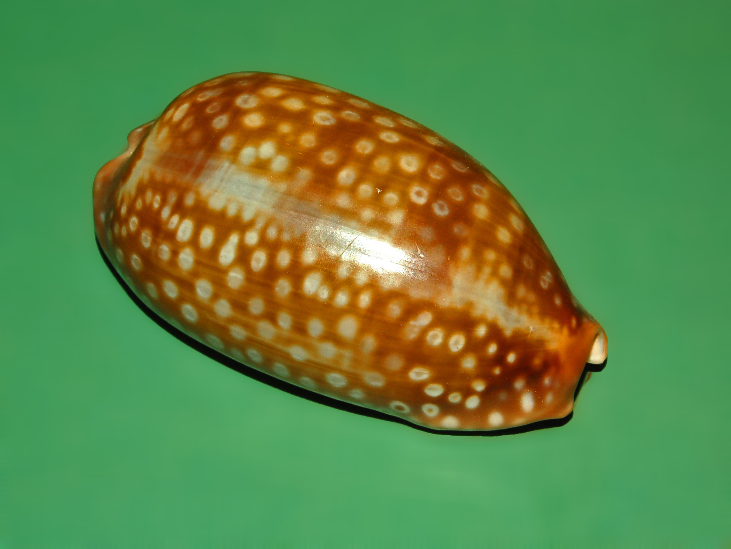 Macrocypraea zebra - Panama